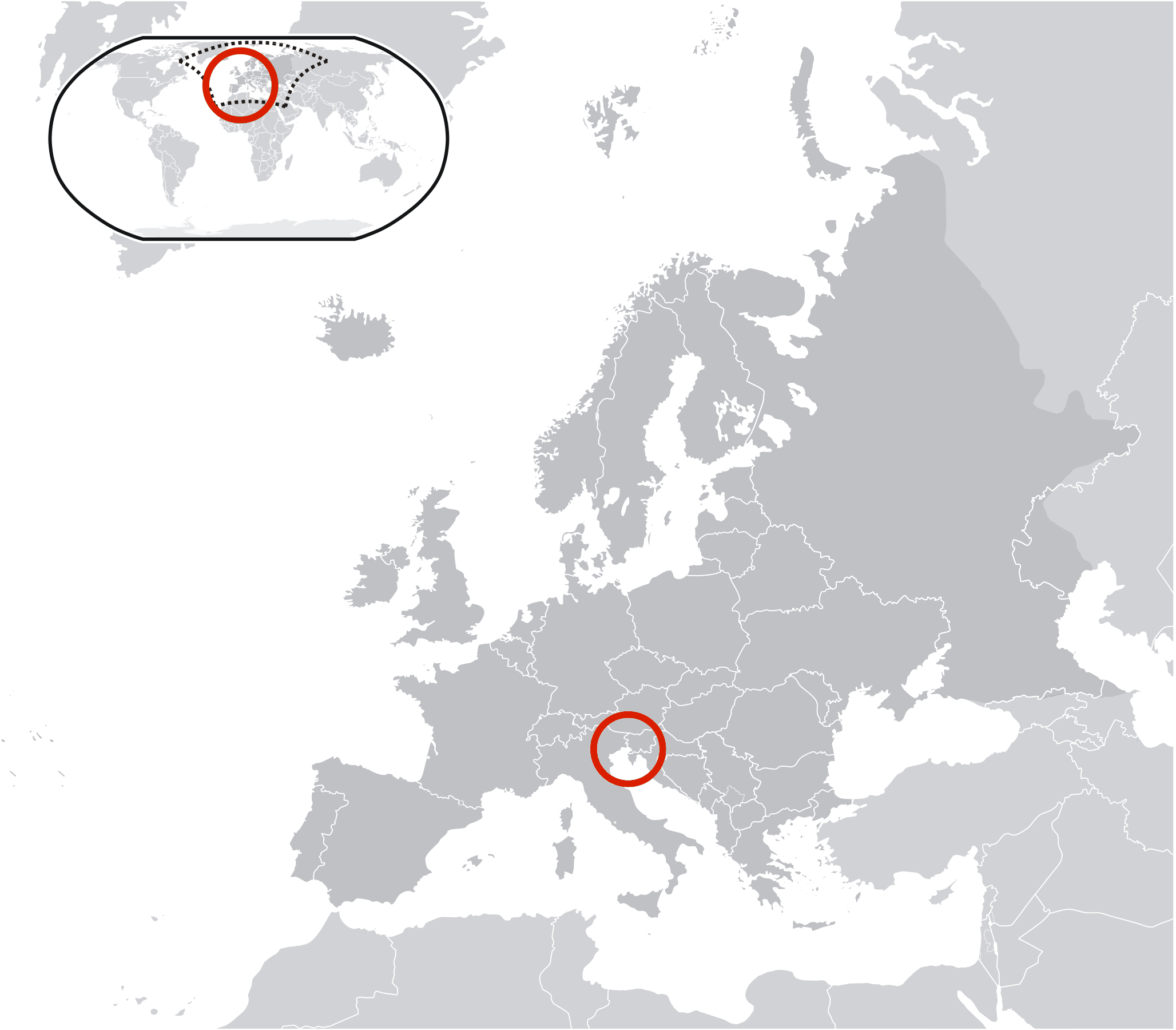 Location of the Free Territory of Trieste in Europe